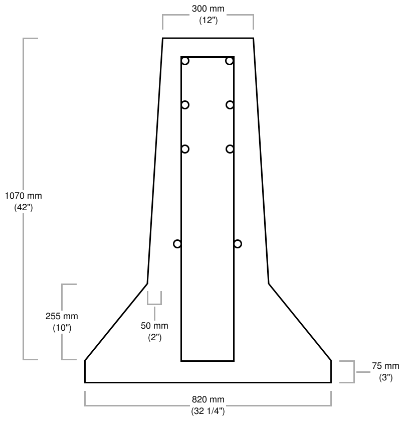 An illustration of a Jersey barrier.